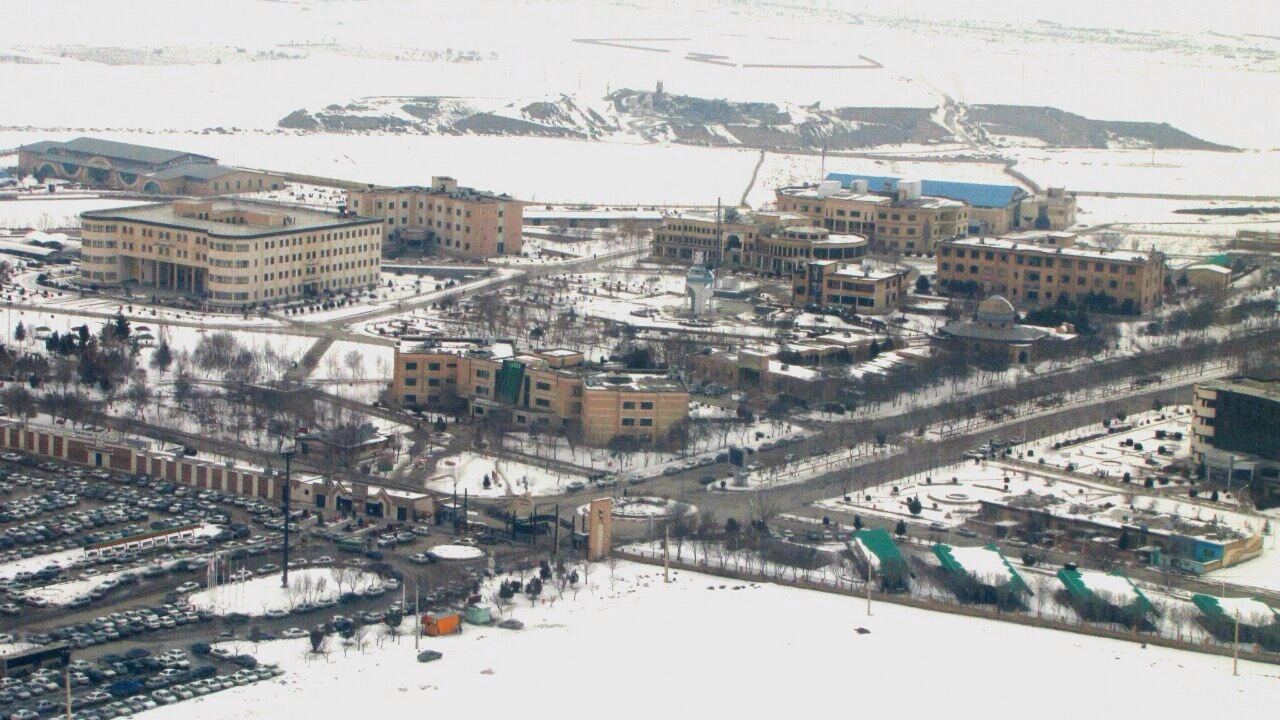 عکسی از واحد همدان